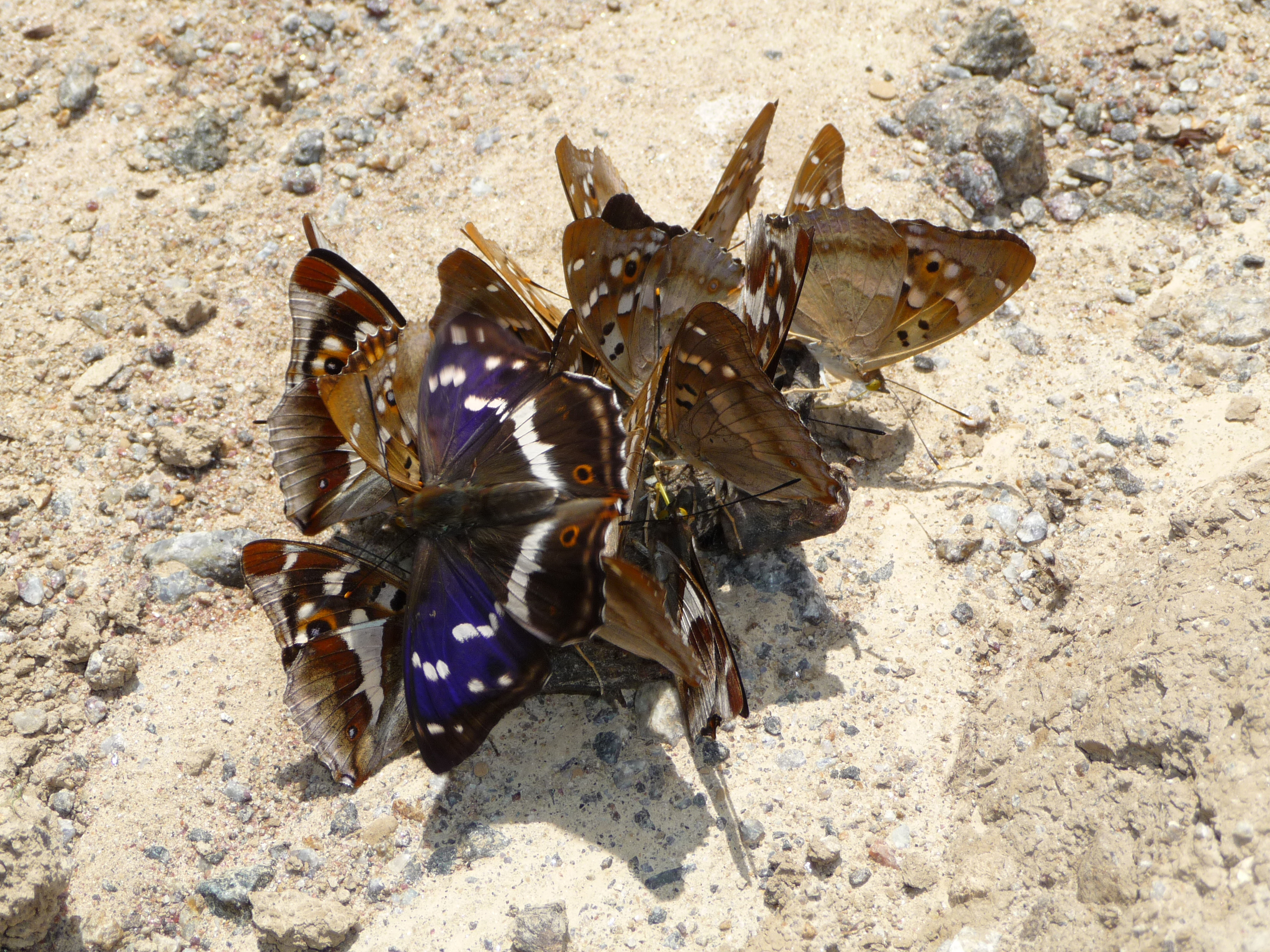 Purple Emperors (Apatura iris) and Lesser Purple Emperors (Apatura ilia) eat moisture on the body died European brown frog (Rana temporaria). Ukraine.